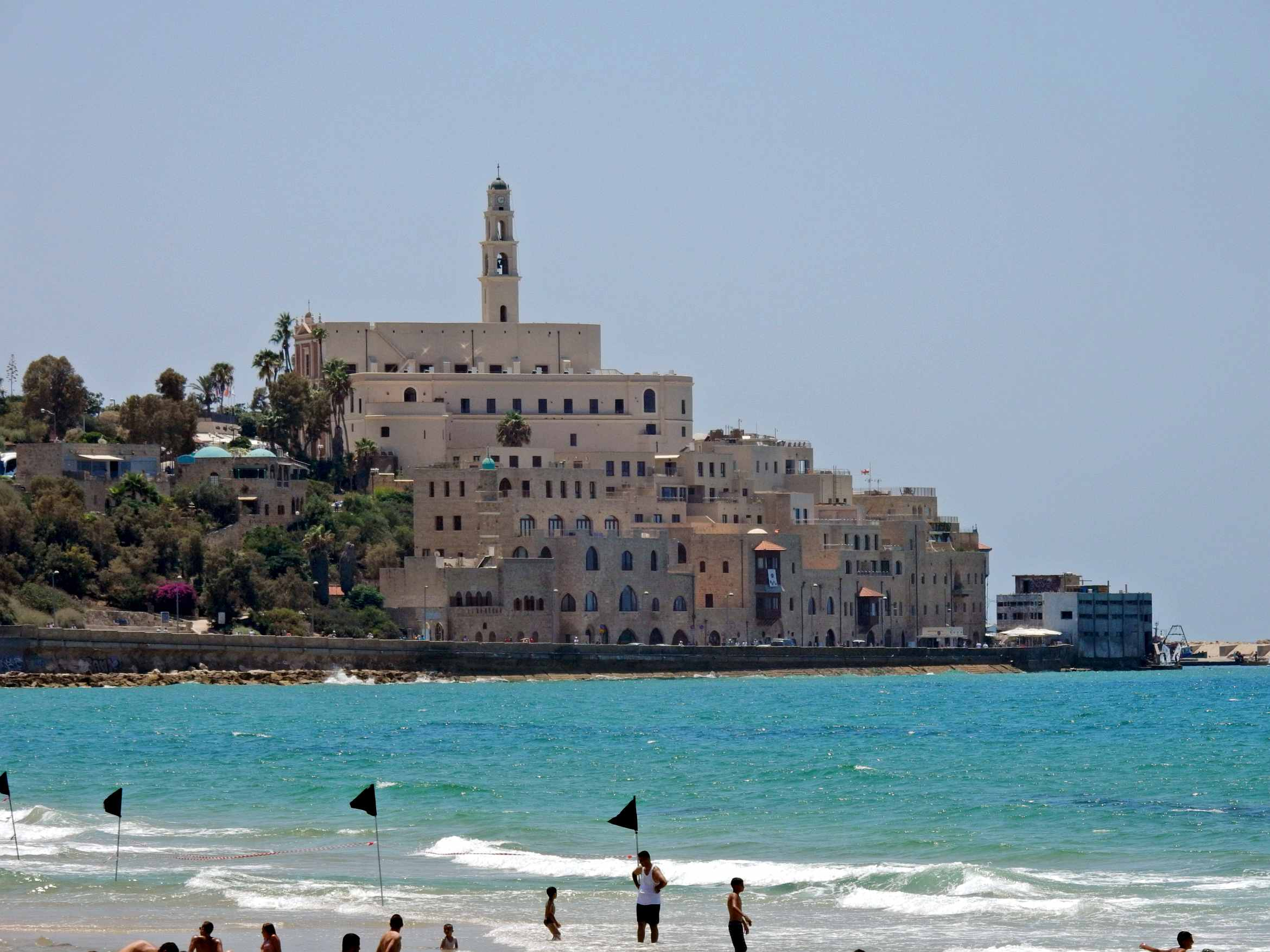 Die orientalische Altstadt Jaffa The oriental old city of Tel Aviv Jaffa. You're welcome to use this picture free of charge, as long as you follow the license terms. As a matter of courtesy a link (dofollow links are welcome!) to is much appreciated. Thank you! ————————–—–—–—–—–—–—–—–—–—–—–—–—–—–—– Du kannst dieses Bild gemäß der Lizenzbestimmungen unentgeltlich nutzen. Über eine Verlinkung (dofollow am liebsten) auf freuen wir uns. Danke!